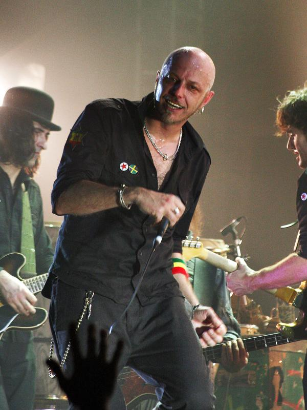 Negrita (Pau)